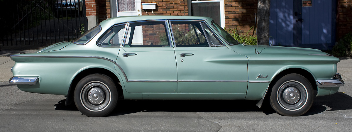 1960 Plymouth Valiant side view showing the semi-fastback